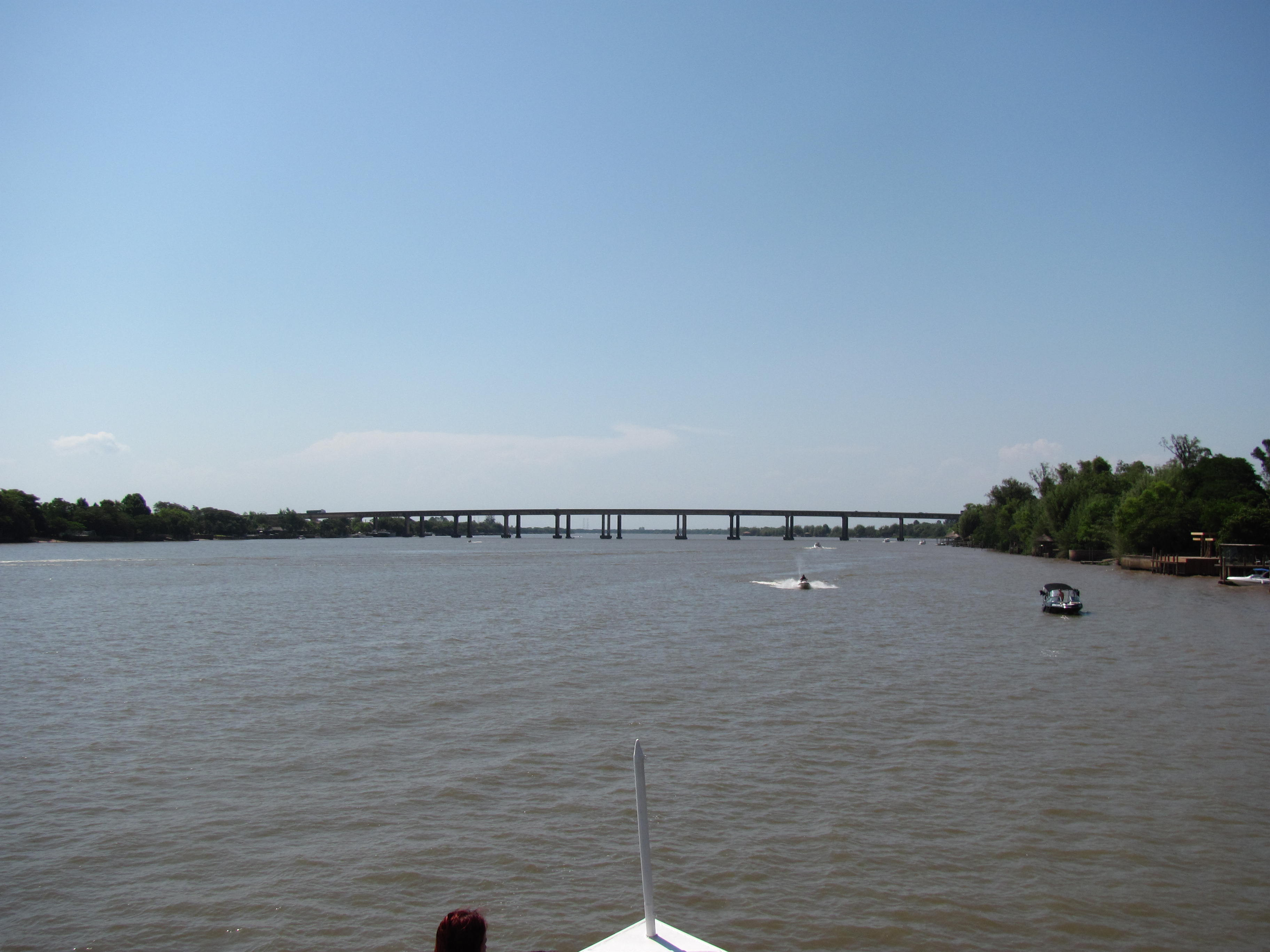 Bridge over the Jacuí river, linking the Porto Alegre municipality of Eldorado do Sul